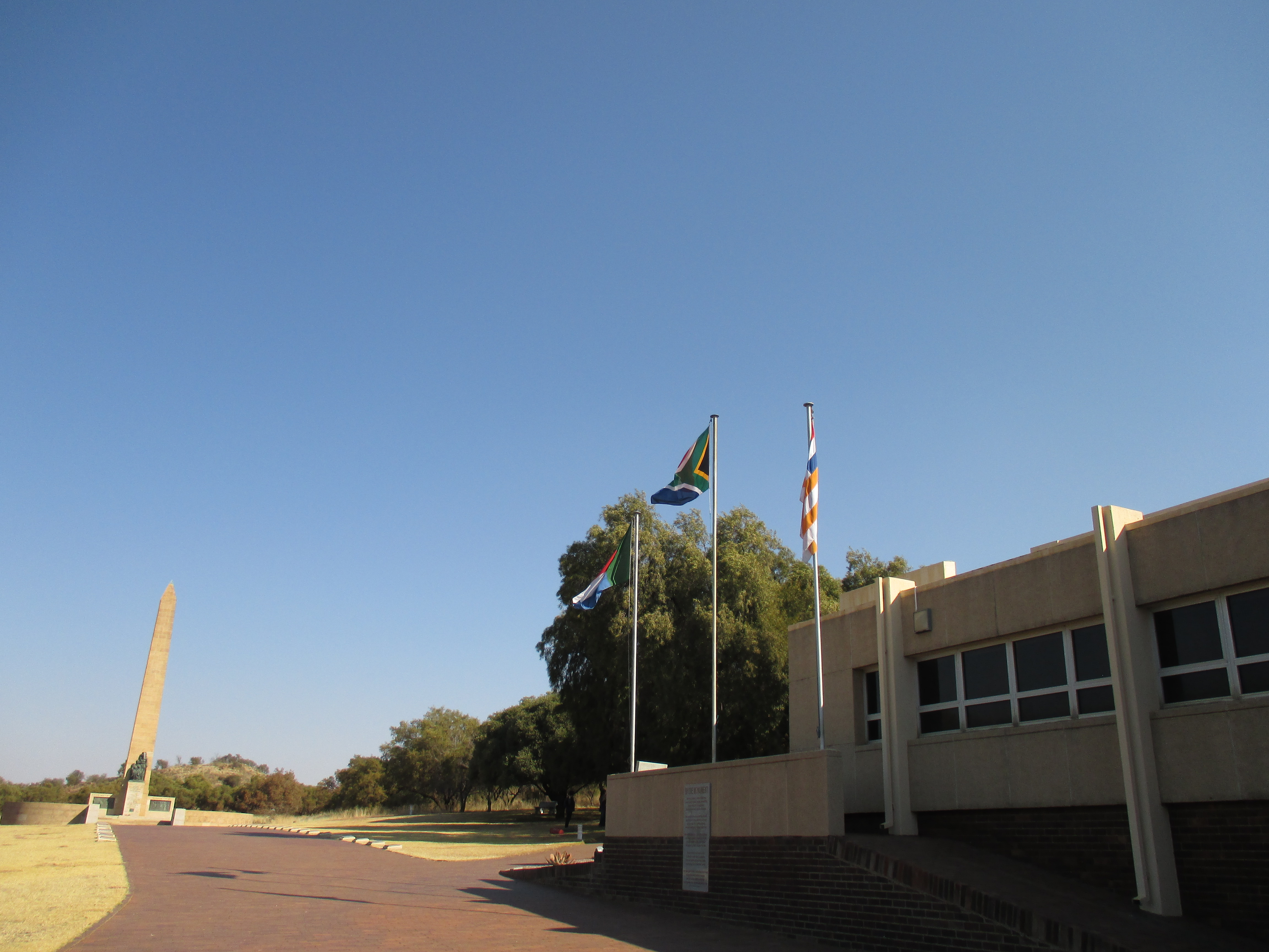 Boer War museum (in foreground) and Women's Memorial (in background), Bloemfontein This media shows a South African Protected Site with SAHRA file reference 9/2/302/0045.